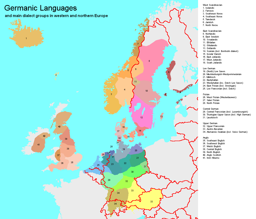 Germanic languages and main dialectgroups in western and northern Europe